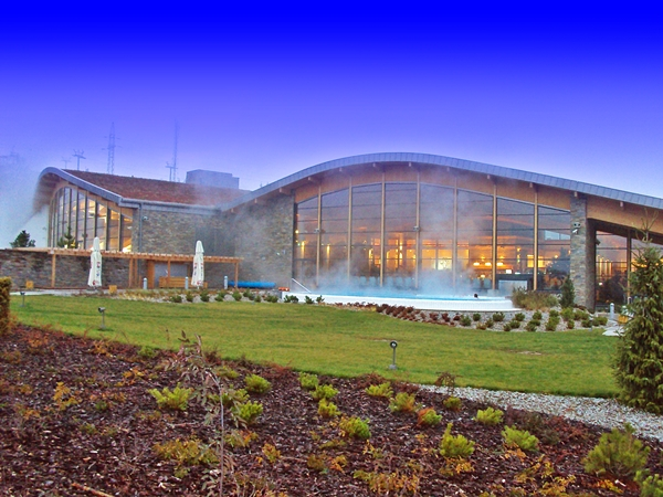 Termy BANIA